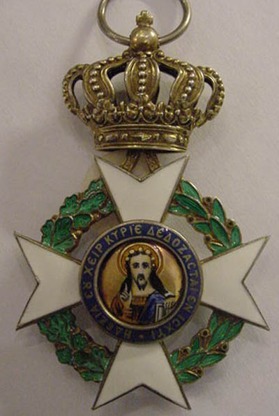 Order of the Redeemer, Greek Monarchy, From a private collectio, photograph: Alexvonf, 2004